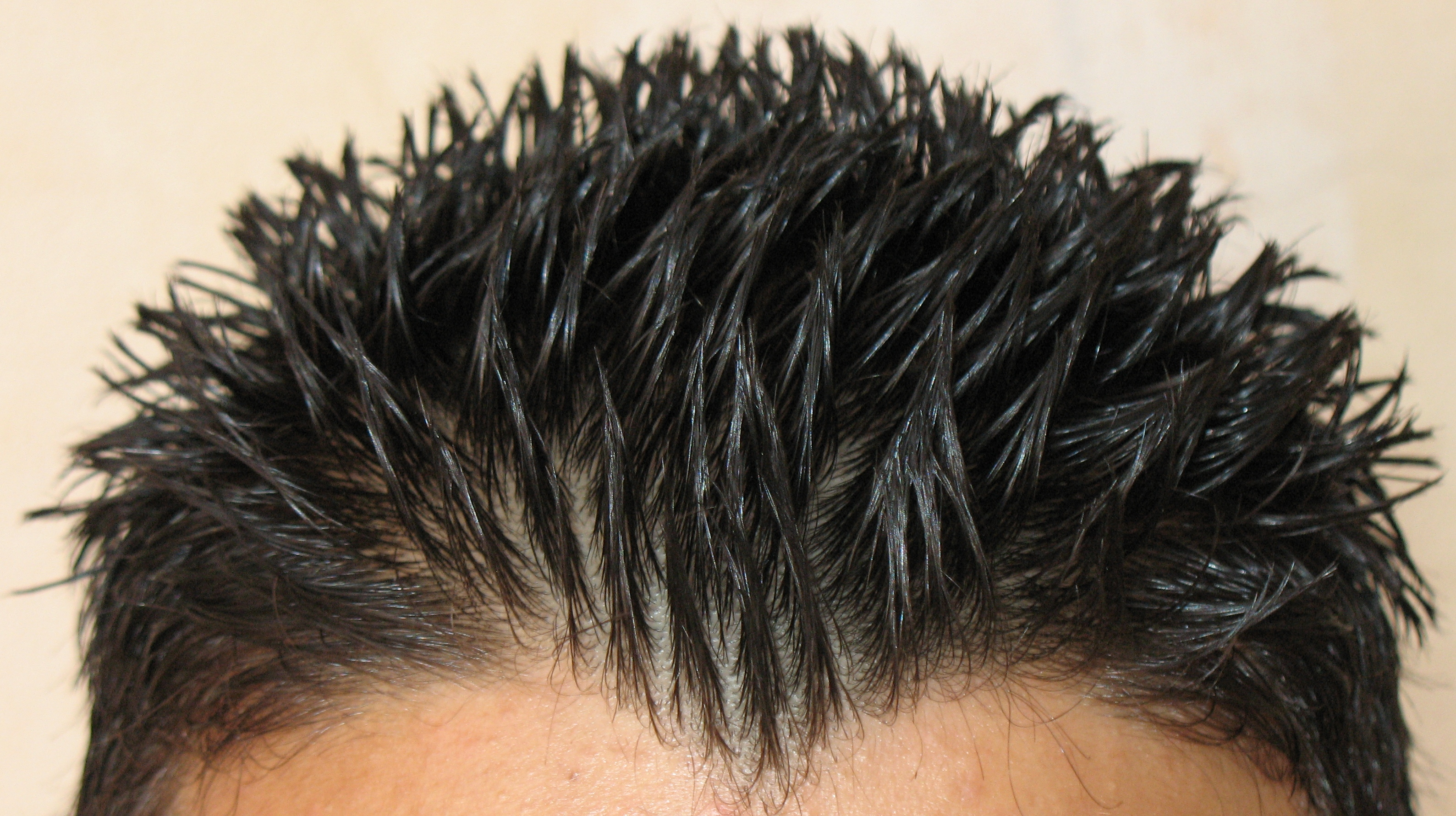 "gelled" hair